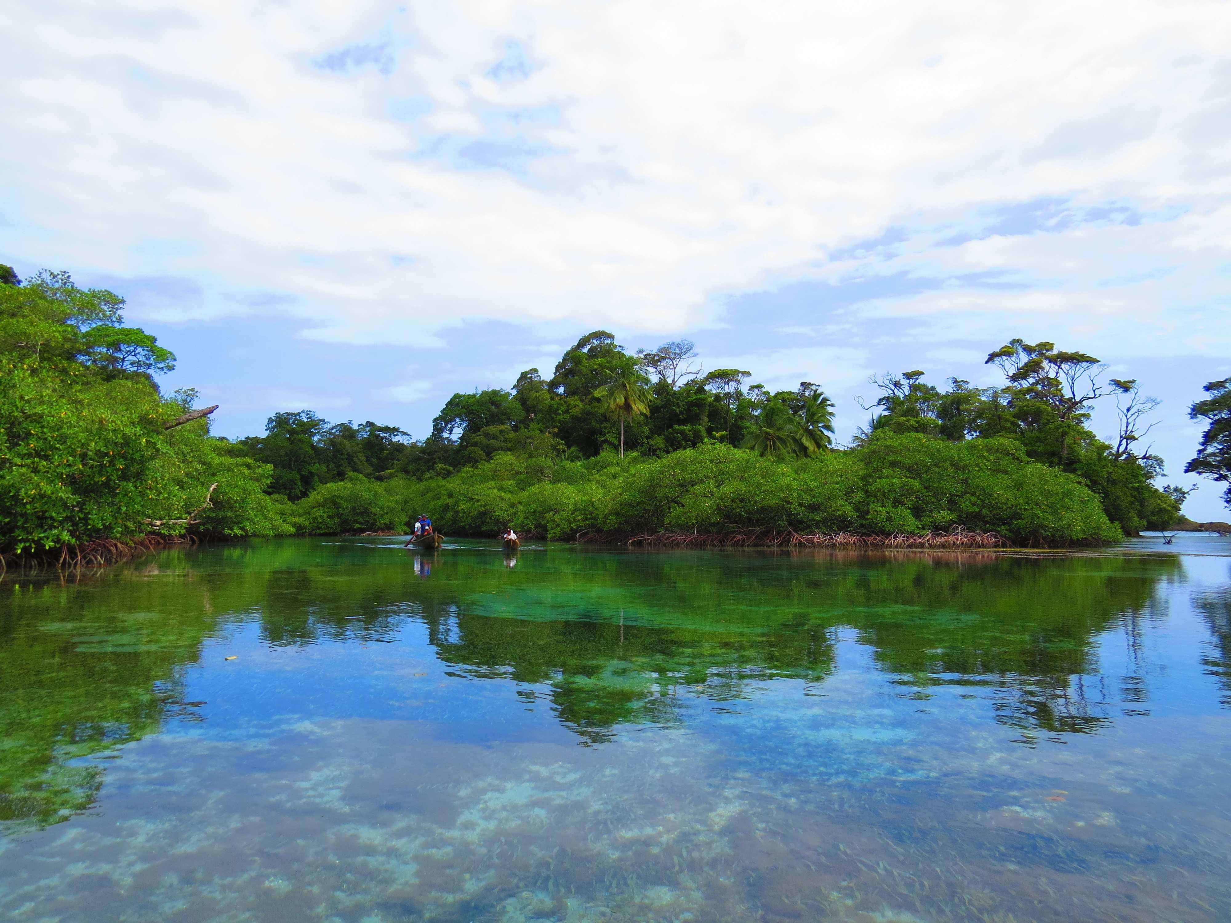 Transparent water channels entering the island